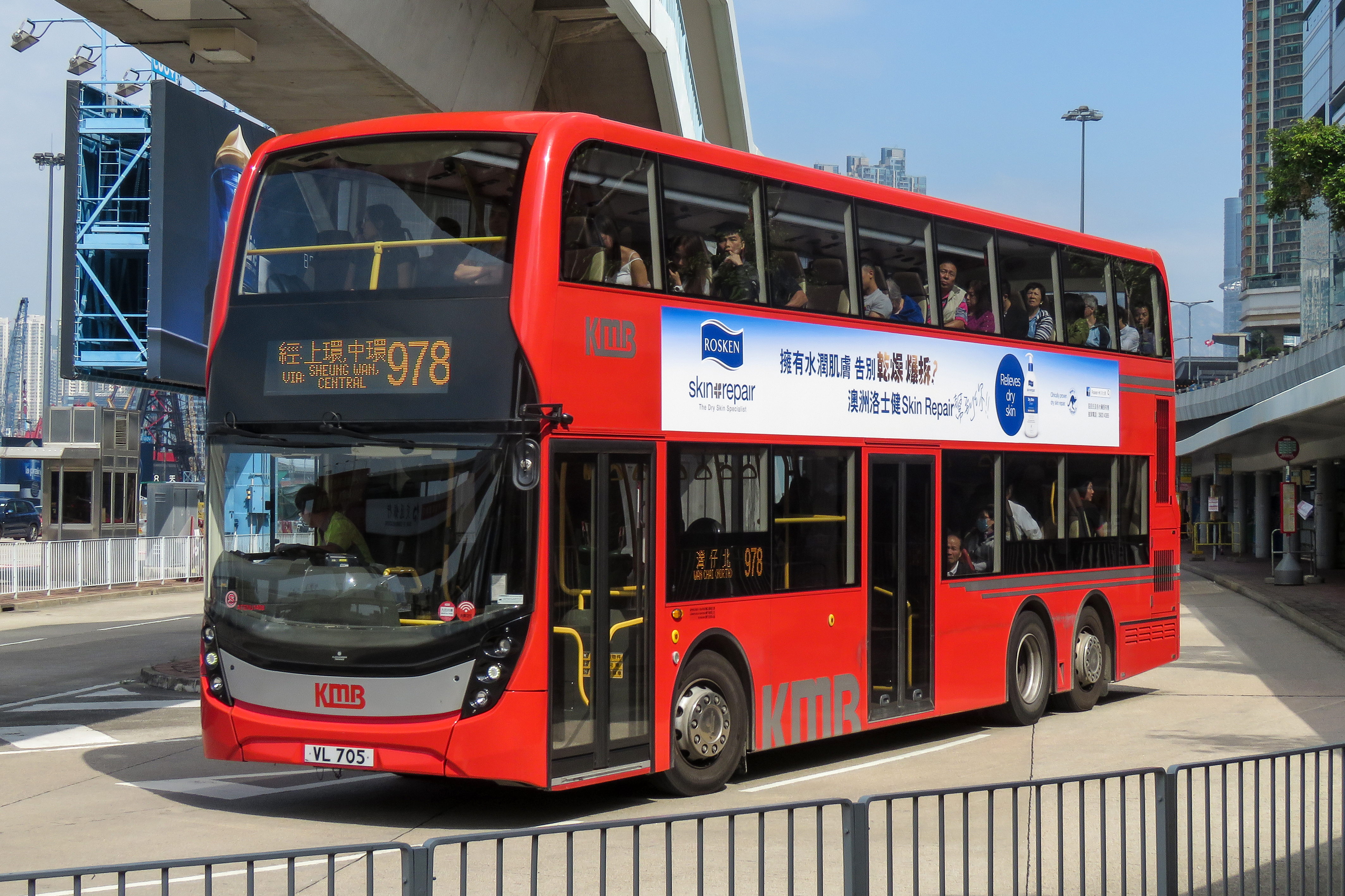 978 provides express service from Sheung Shui to Hong Kong Island.